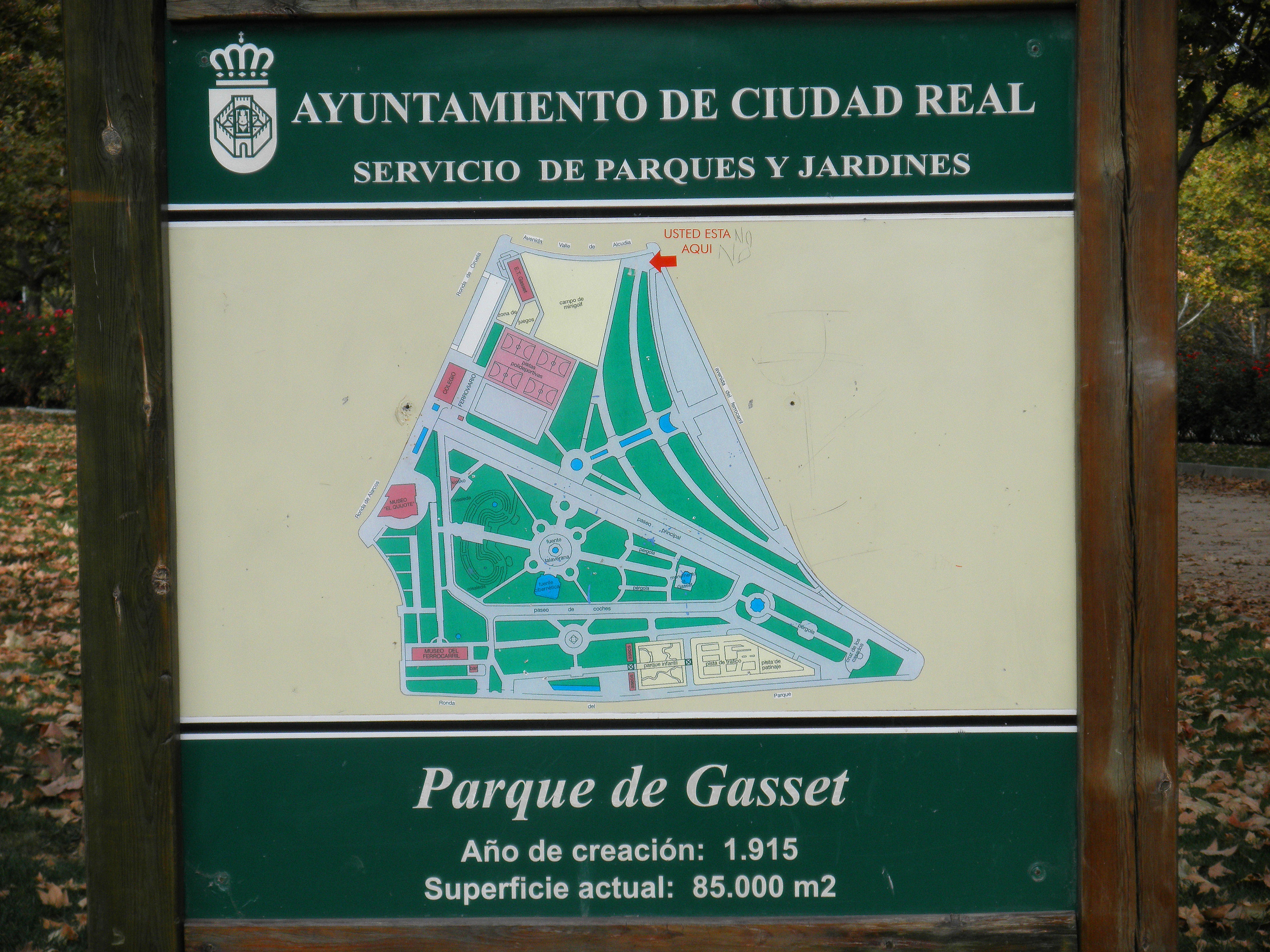 Garden map in Parque Gasset, Ciudad Real, Spain.